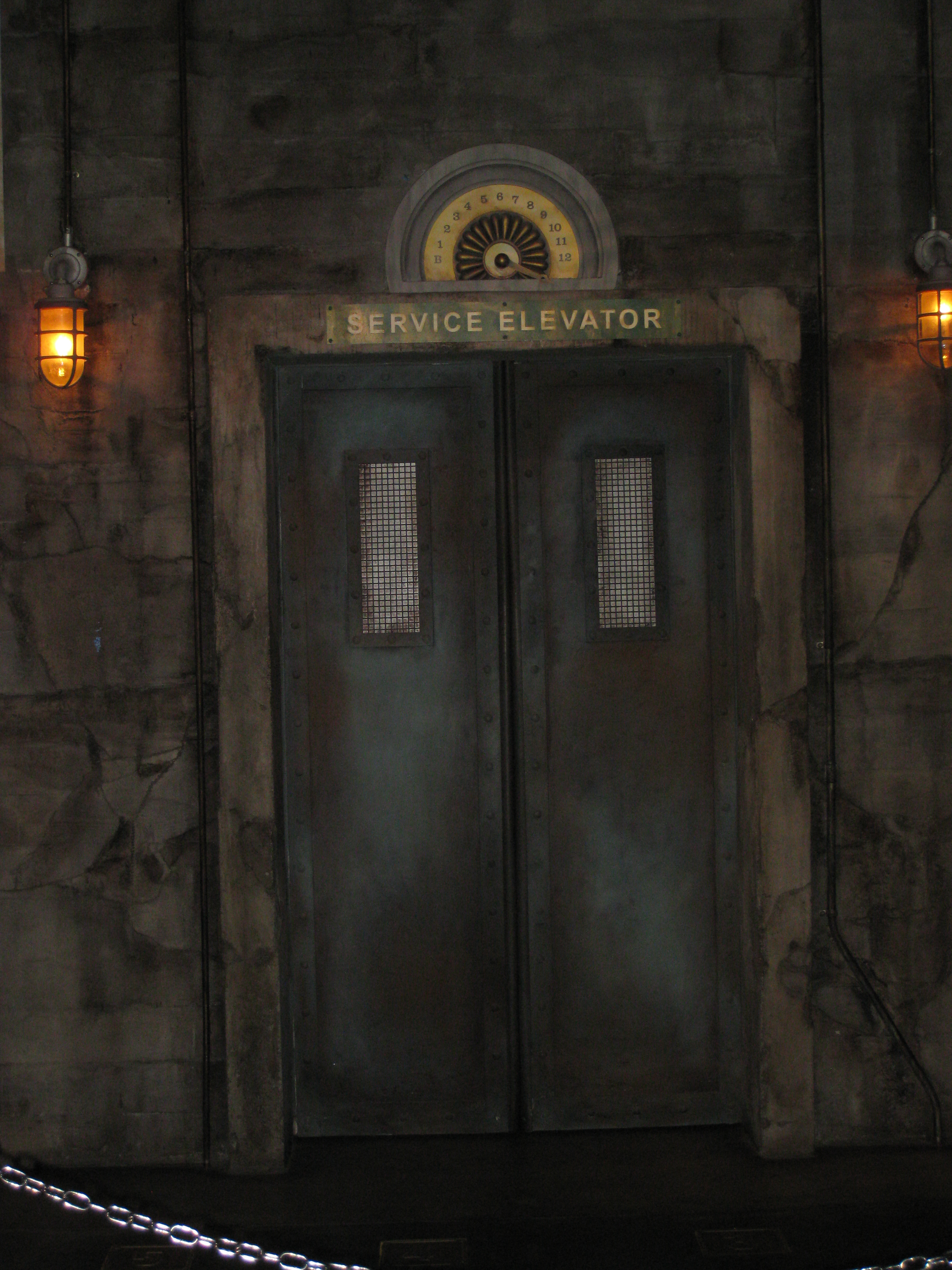 Tower of Terror at Disney's California Adventure, Disneyland Resort